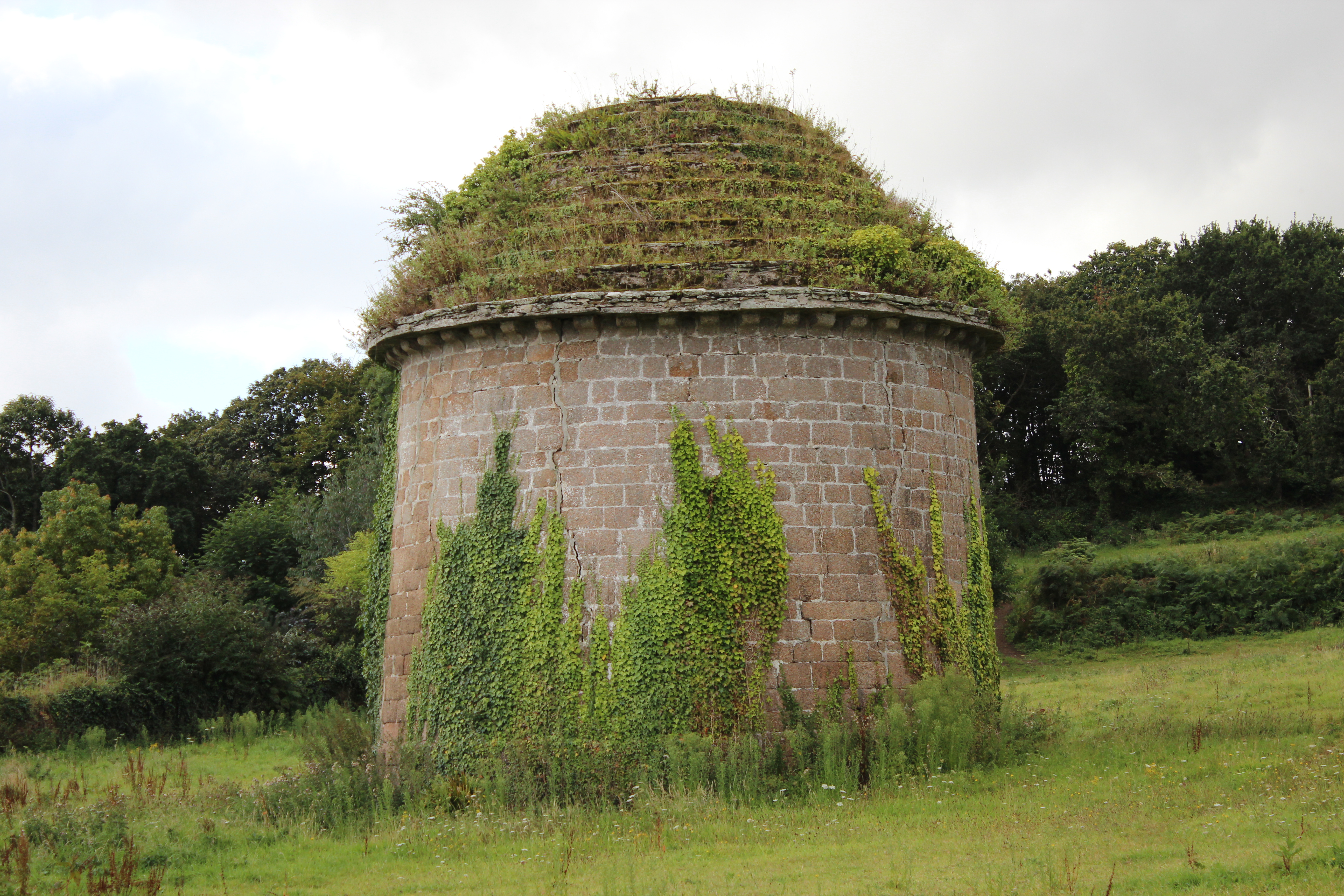 Dovecote of Pont-Couennec Manor in Perros-Guirec. .